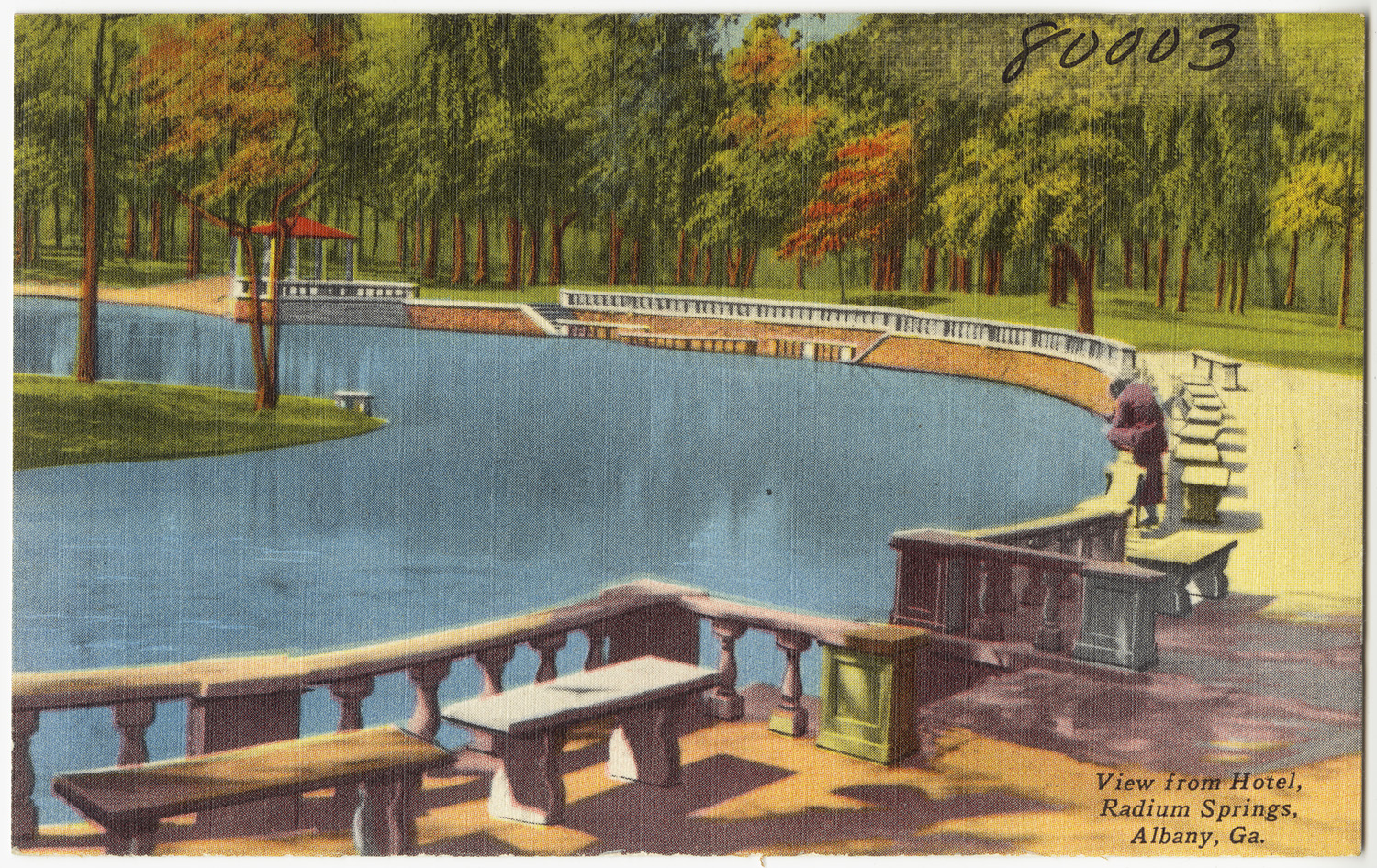 File name: 06_10_013830 Title: View from hotel, Radium Springs, Albany, Ga. Date issued: 1930 - 1945 (approximate) Physical description: 1 print (postcard) : linen texture, color ; 3 1/2 x 5 1/2 in. Genre: Postcards Subject: Lakes & ponds Notes: Title from item. Collection: The Tichnor Brothers Collection Location: Boston Public Library, Print Department Rights: No known restrictions